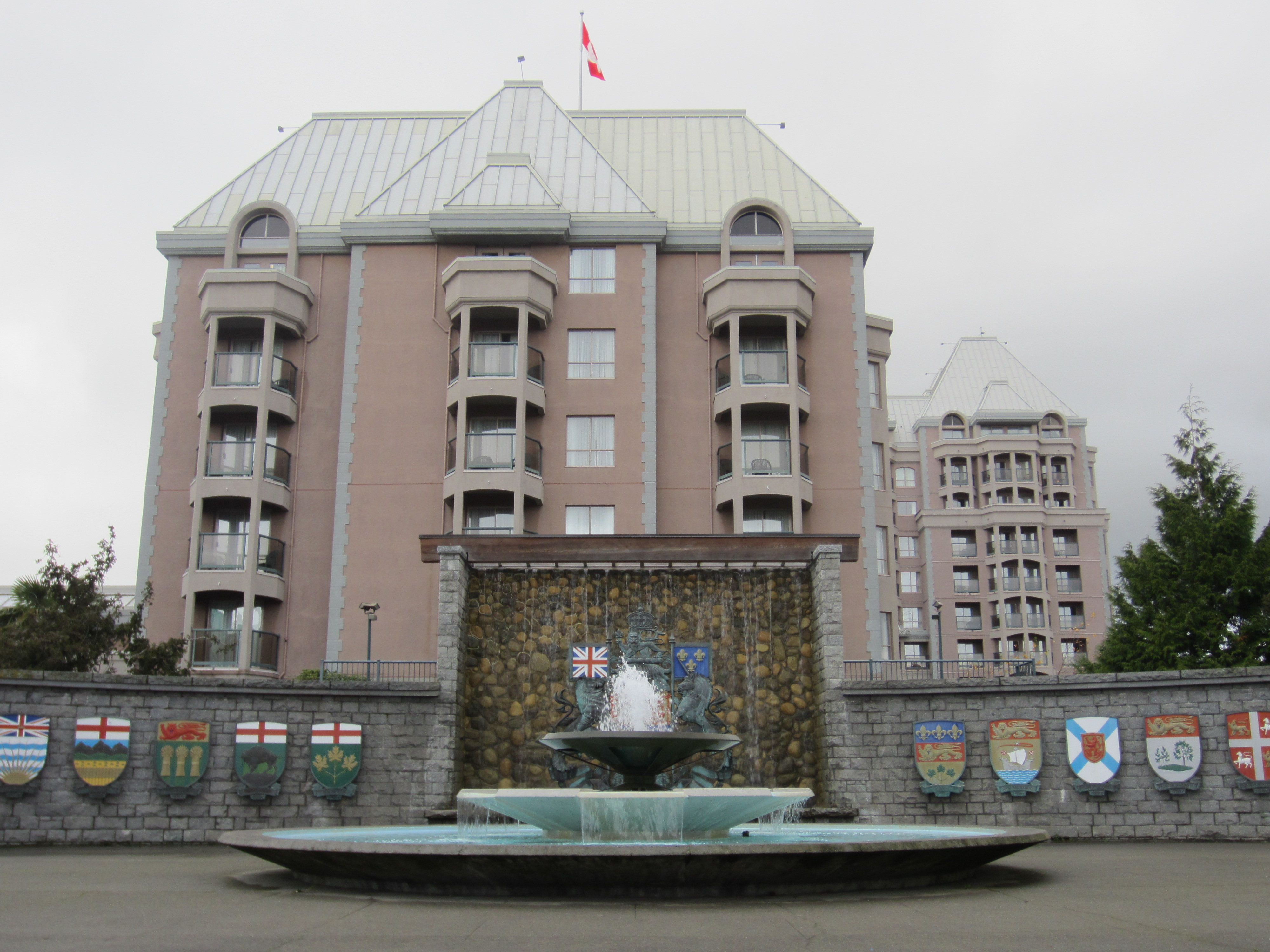 Victoria, British Columbia, Canada in December 2012